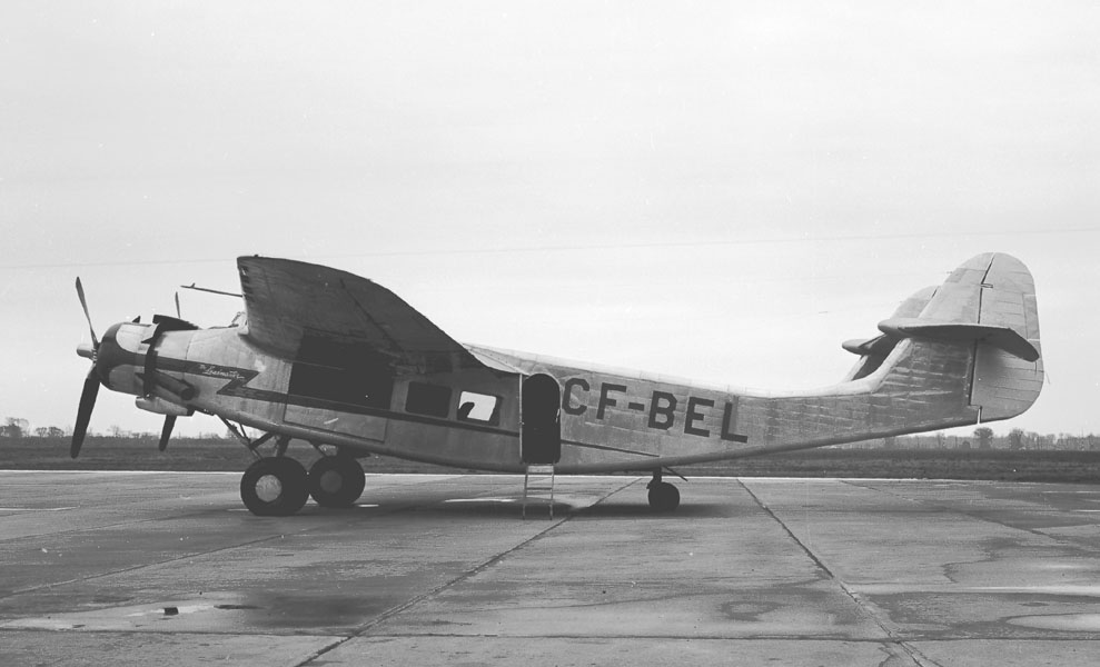 At Montreal, Canada, in May 1948. Later known as CBY-3 Liftmaster.